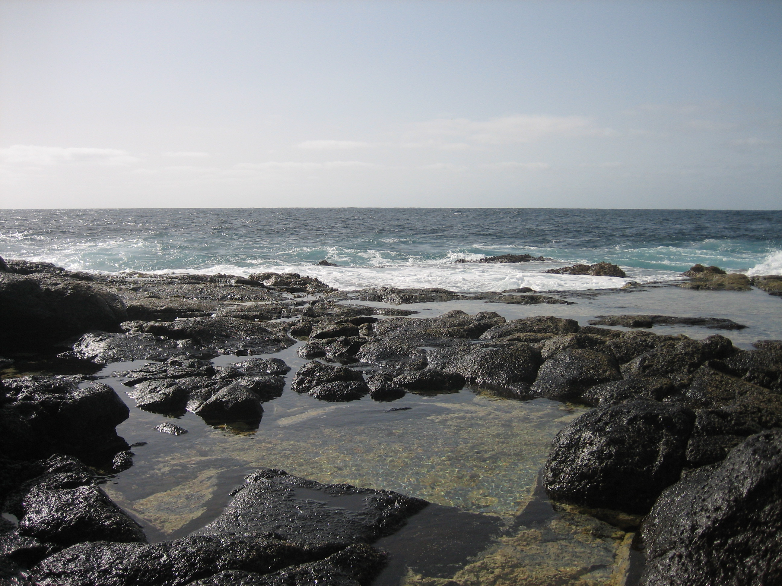 Basaltic rocks of the north coast of Sal, Cape Verde